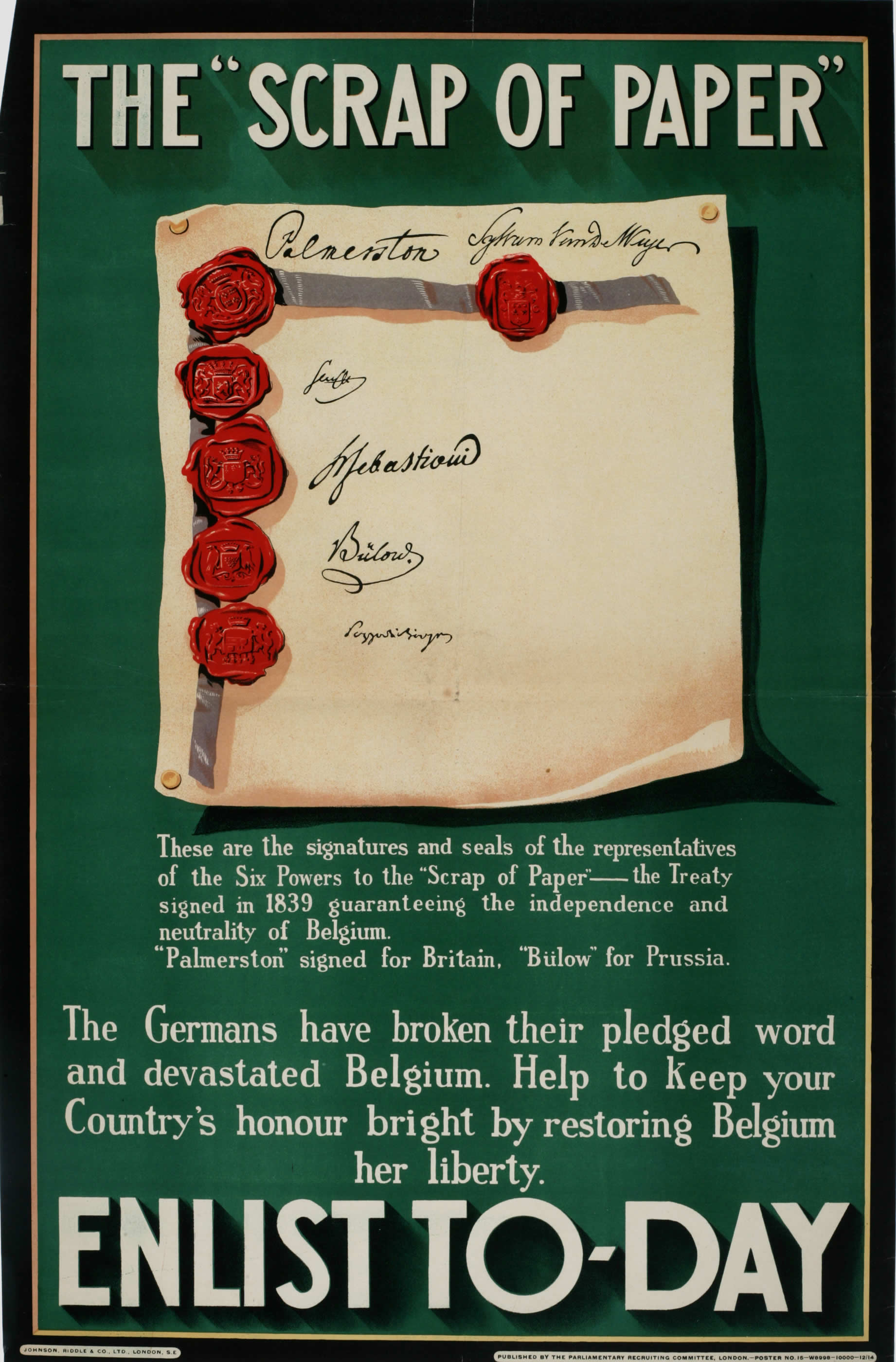 The 1839 Treaty of London guaranteed Belgium's neutrality. In 1914, German Chancellor Theobald von Bethmann Hollweg infamously sneered at Britain’s willingness to go to war over a "scrap of paper." This British poster encouraged enlistment by arousing sympathy for Belgium and support for the British Empire's pledge of honour in its defence.